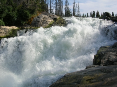 View of upper Nistowiak Falls, taken by Fremte Aug 2007